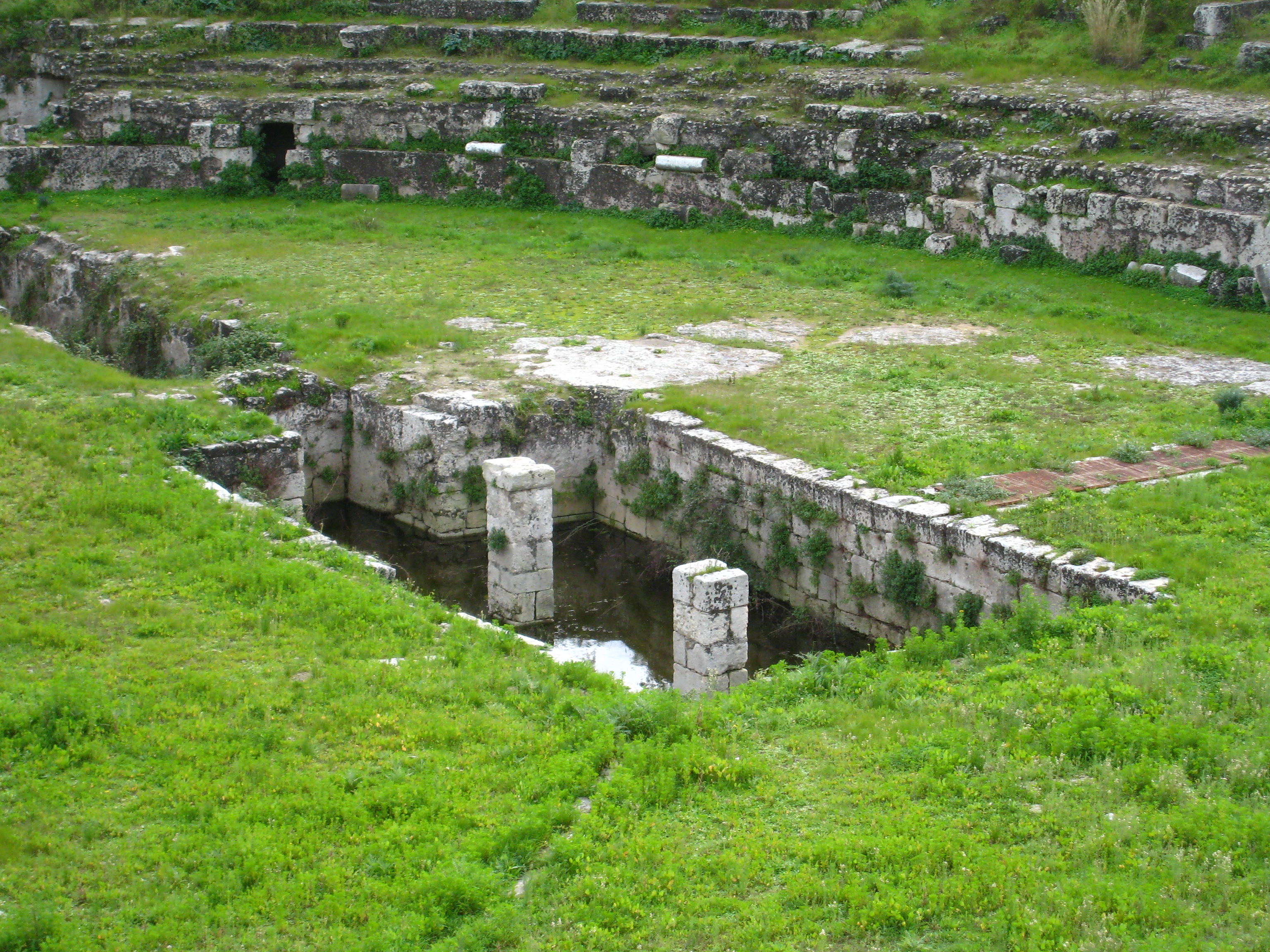 Roman Theatre